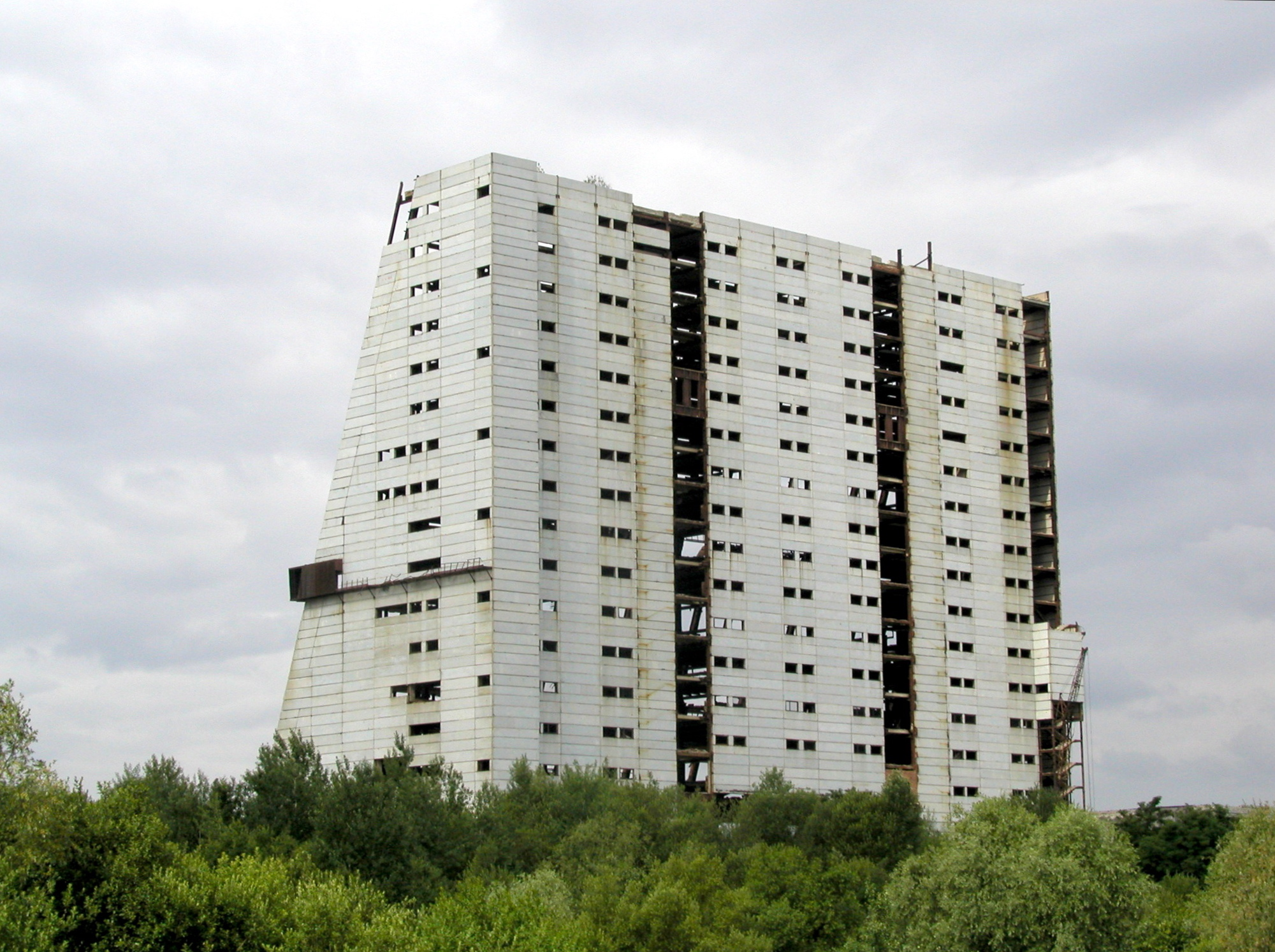 Receiver of the Daryal-UM type LPAR near Mukacheve (Pistryalove, Transcarpathian Region, Ukraine)